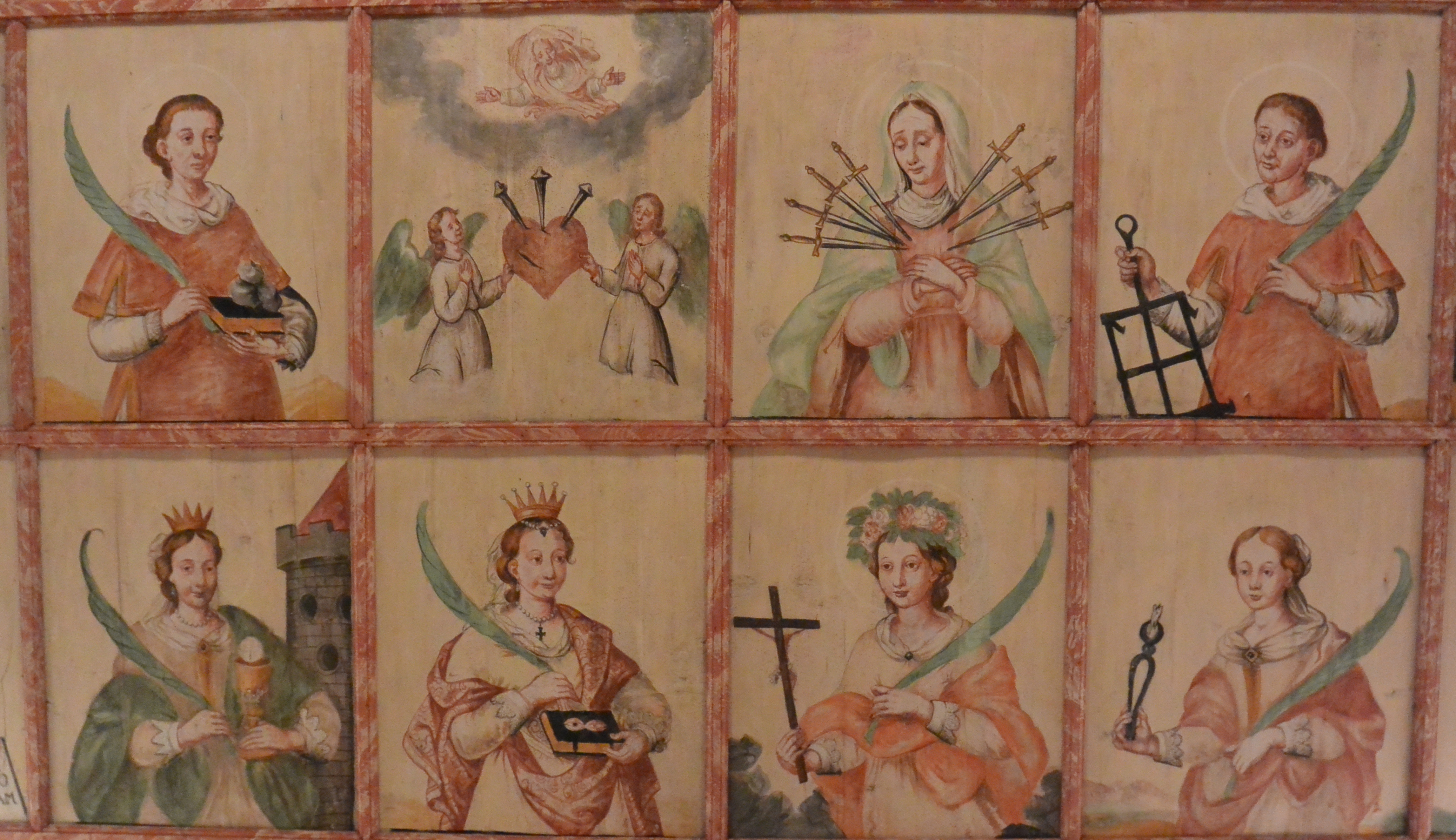 Catholic church St. Lucia at Aich/Dobin the community of Bleiburg - ceiling painting